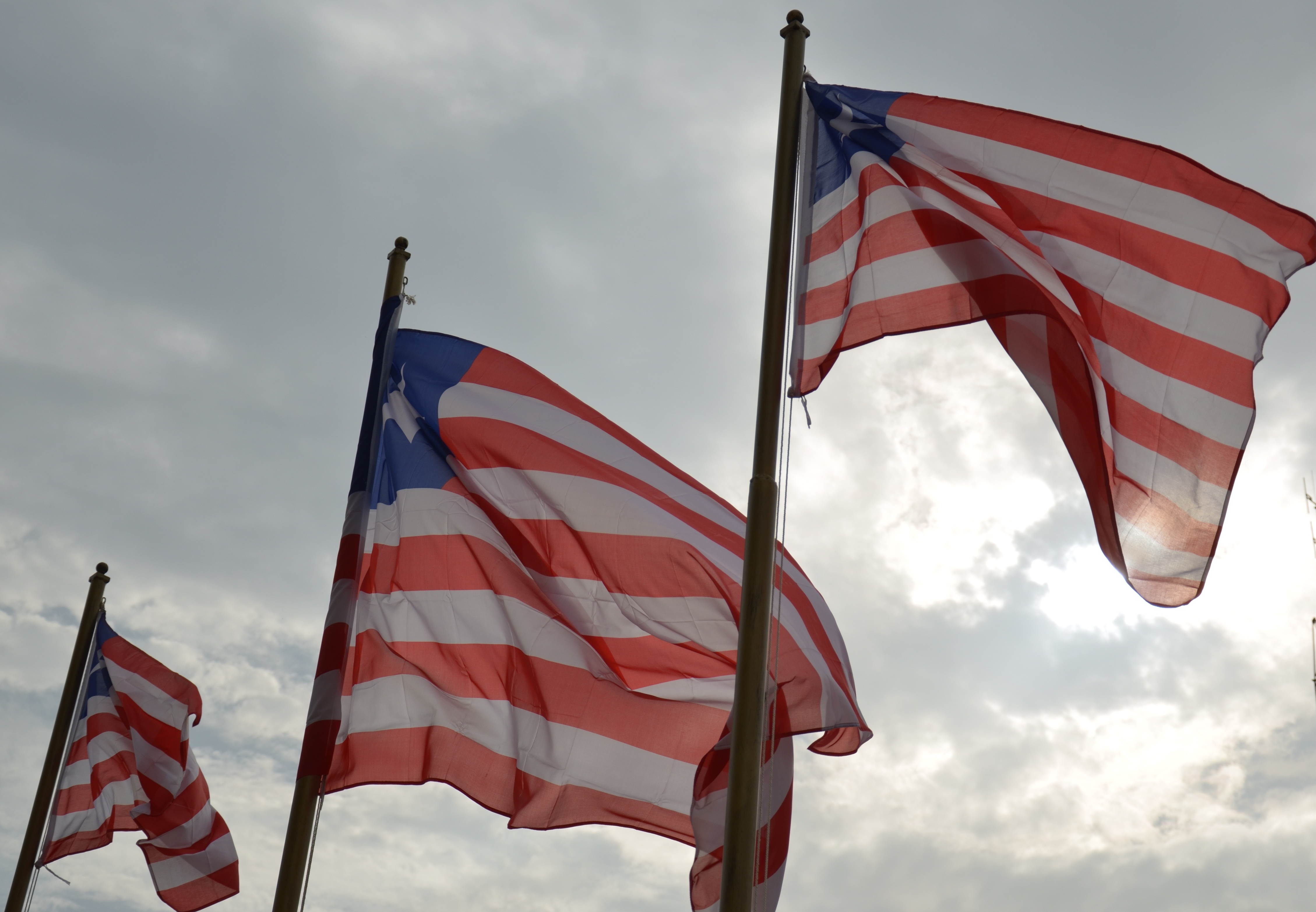 Liberia, Africa